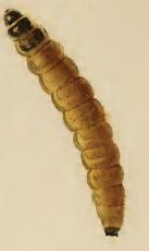 Stainton’s Natural History of the Tineina (1855–1873): Coleophora juncicolella